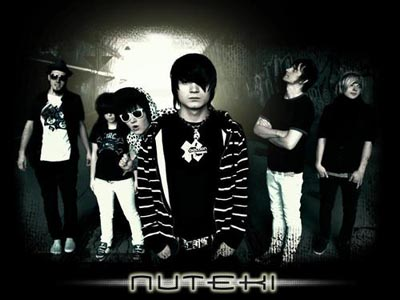 photo of a Nuteki band